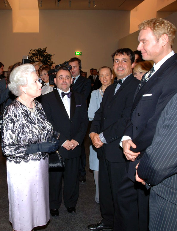 HRM Queen Elizabeth II on her state visit to Estonia, autumn 2006. Mart Sander presented to HRM. Dear everyone, I had no idea every single upload is being discussed to the extremes! So let me present myself: my name is Mart Sander, and I do hold copyright to each of the pictures that I have uploaded. These were made by the photographers who work for me, they have been paid for their work and resultingly I own the copyright. Uploading the pictures I do release them into public domain. If there are any problems, my e-mail is . Cheers and merry Christmas, Mart. (User:Zanderz) See also this deletion discussion.